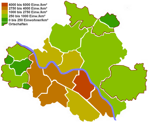 Population per square kilometre in the city districts of Dresden